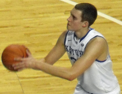 Kyle Wiltjer during a Kentucky Wildcats men's basketball game